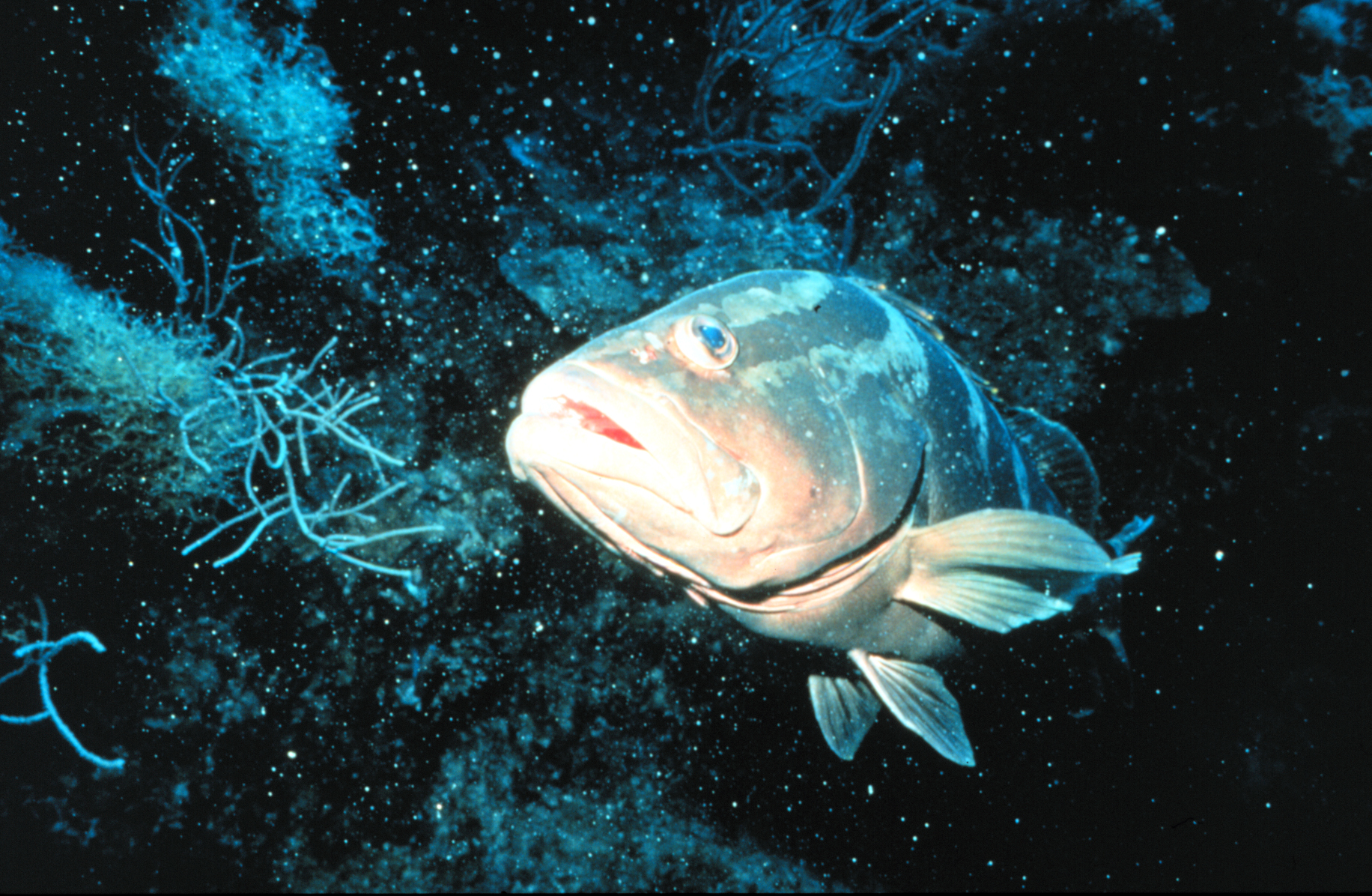 Nassau grouper, Epinephelus striatus, ambushes its prey on Caribbean coral reefs. Image ID: nur00514, National Undersearch Research Program (NURP) Collection Location: Tropical Atlantic Ocean, Bahamas.